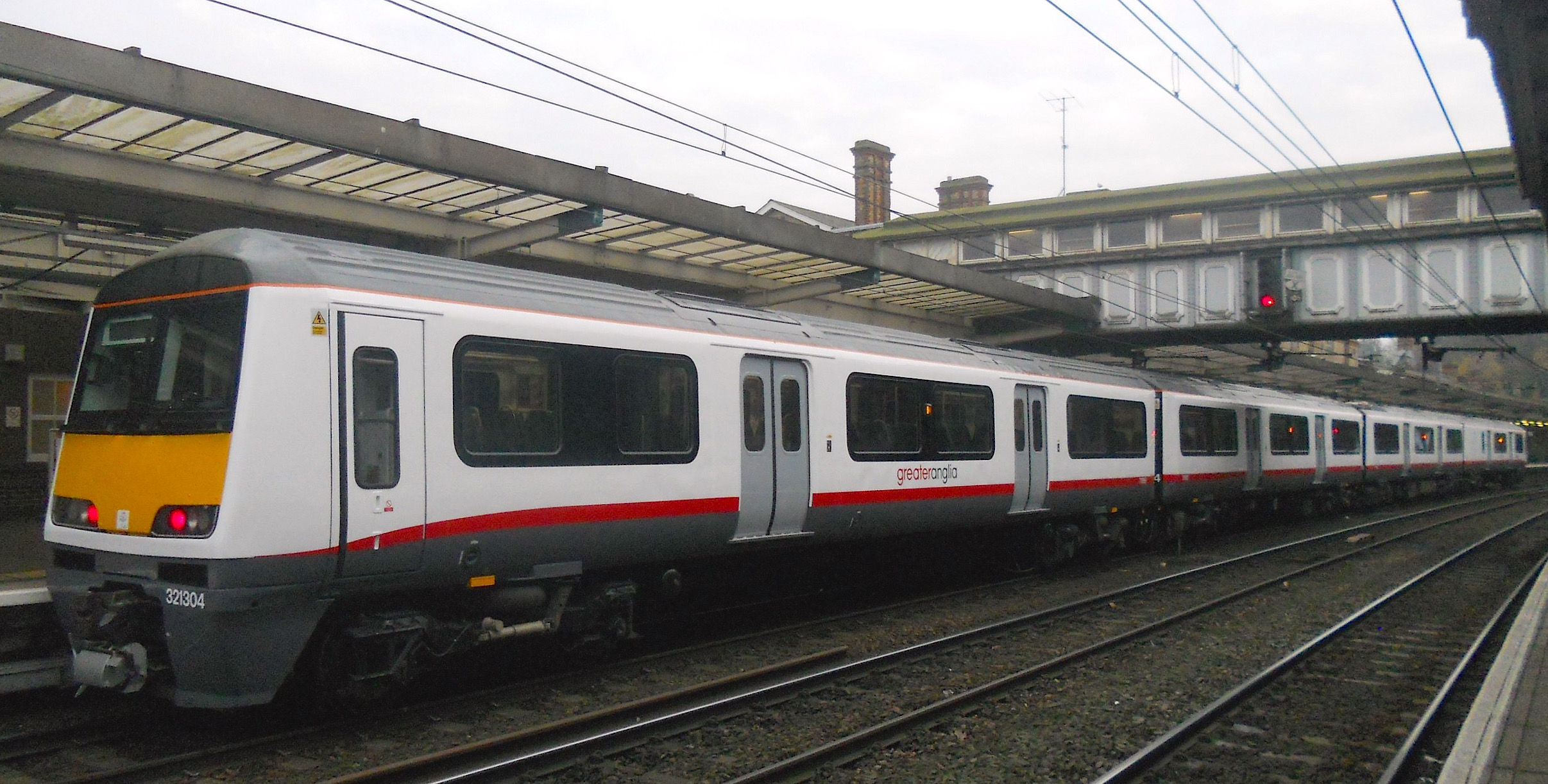 Greater Anglia Renatus refurbished Class 321 No. 321304 at Ipswich